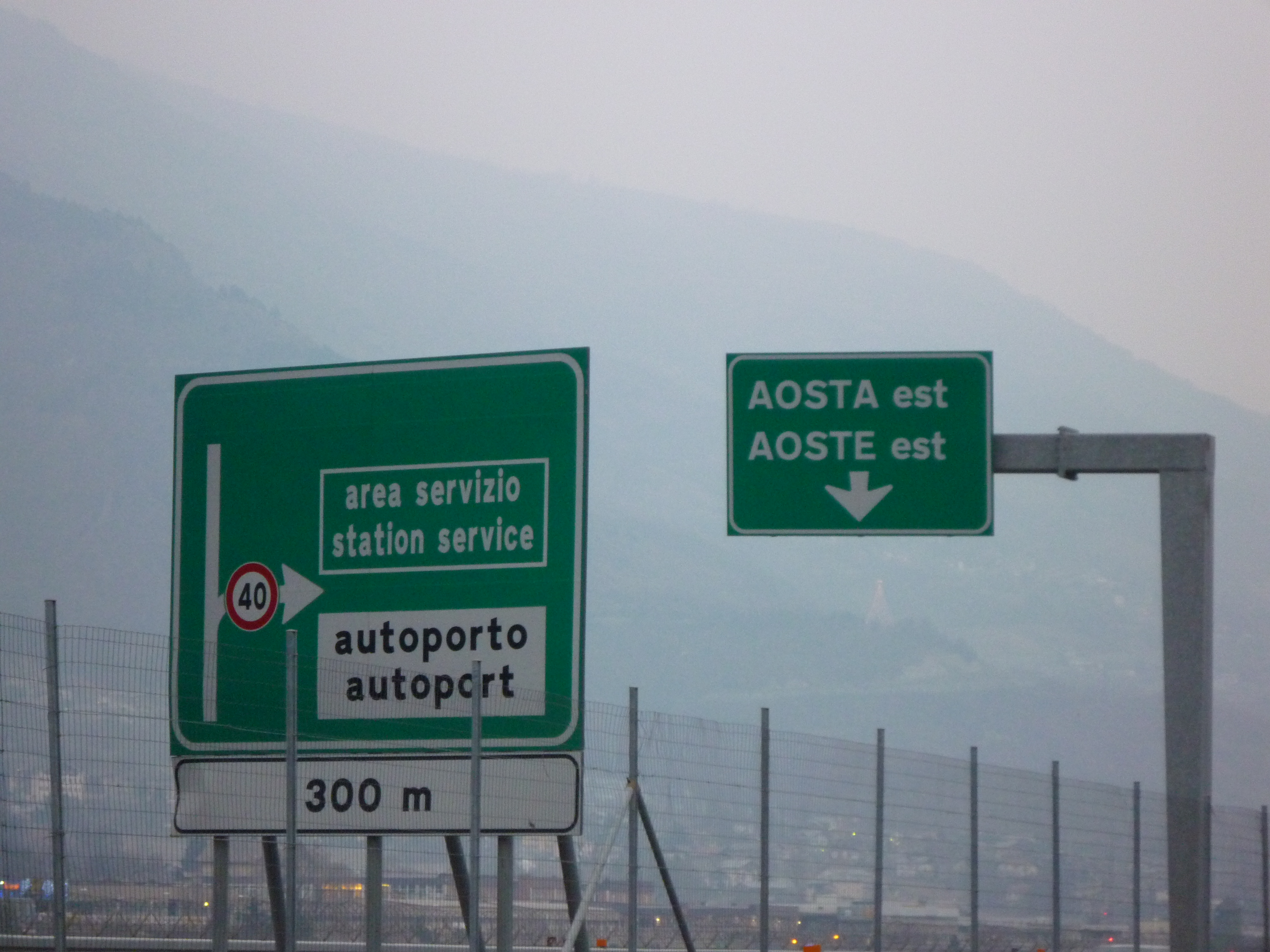 Road signals highway A5 Italy